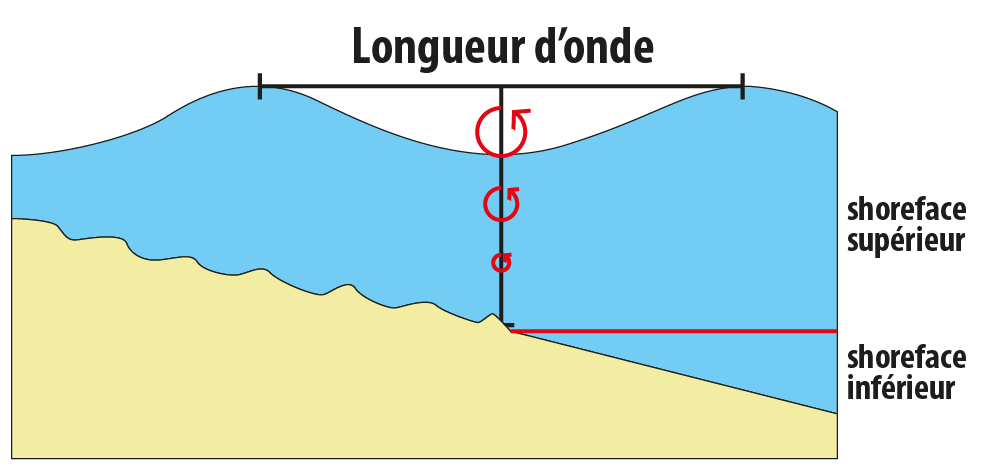 Action des vagues sur le plancher océanique, limite du shoreface supérieur et inférieur (inspiré de [1])